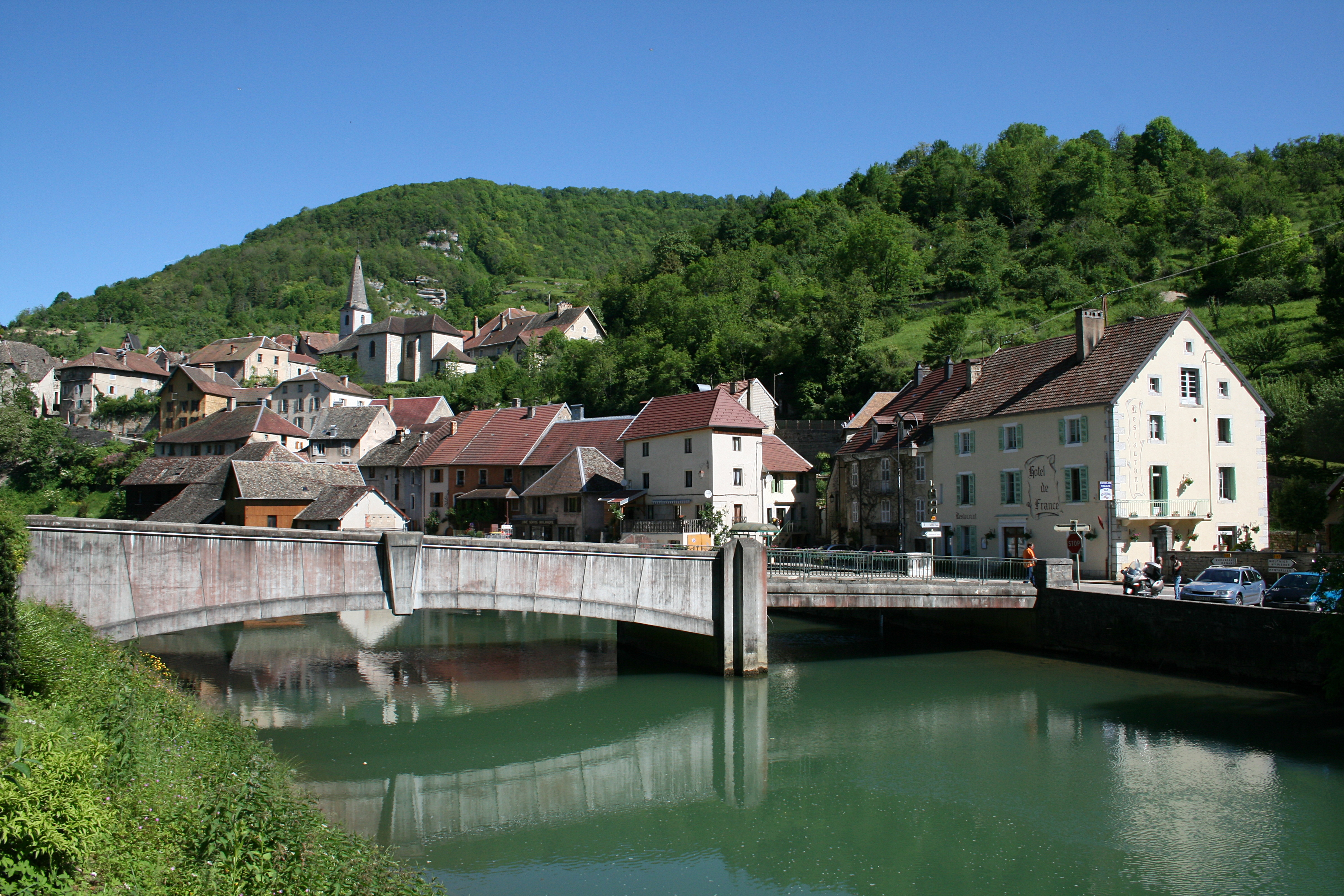 Lods (Doubs - France), the bridge on the Loue (river) and the village .